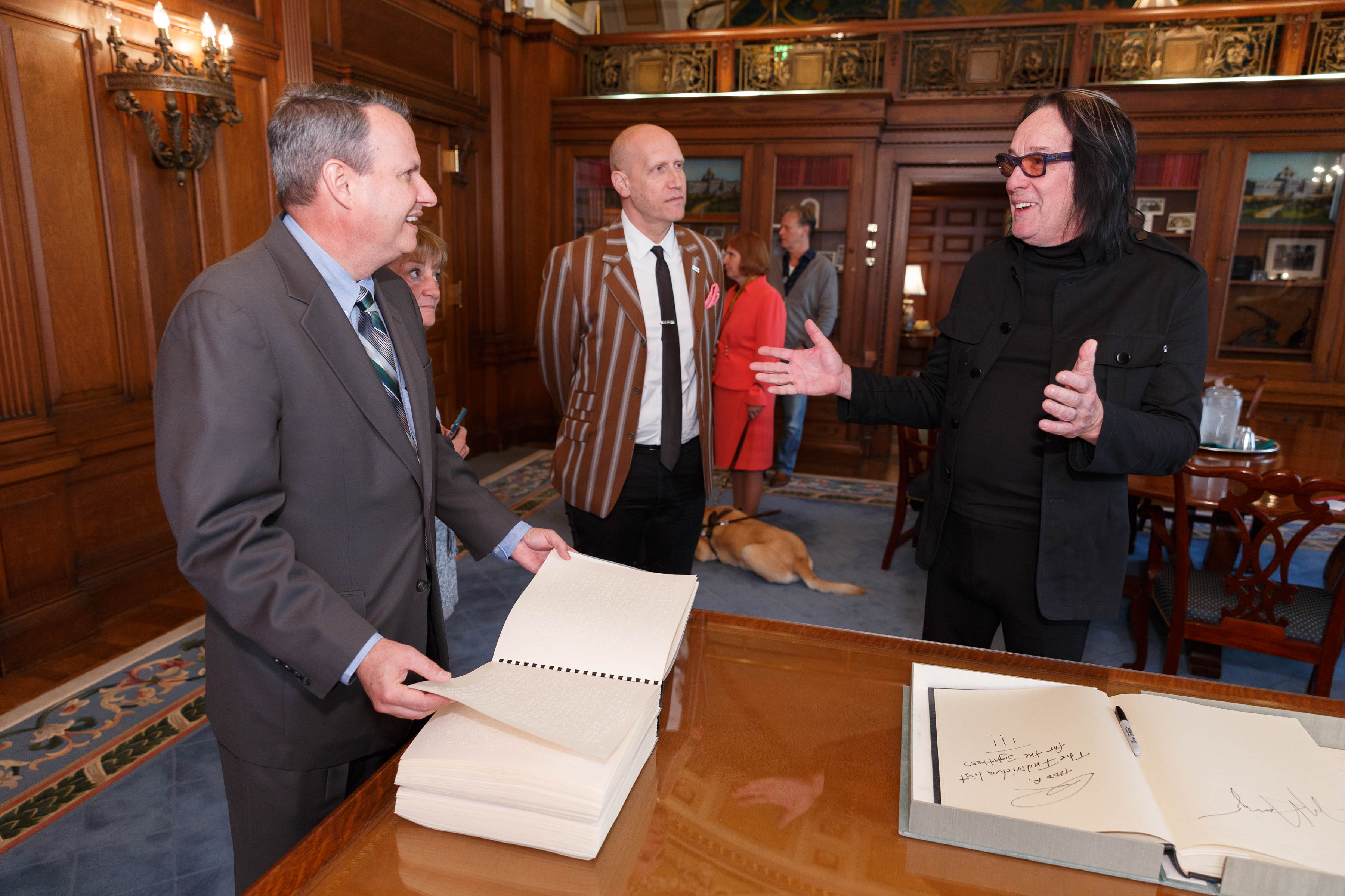 Singer and songwriter Todd Rundgren donates to the Library a braille copy of his autobiography, "The Individualist," produced by fan Chelsea Dye, October 21, 2019. Photo by Shawn Miller/Library of Congress. Note: Privacy and publicity rights for individuals depicted may apply.